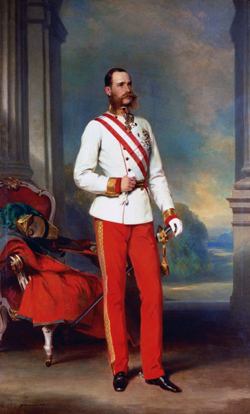 Franz Joseph I, Emperor of Austria (1830-1916) wearing the uniform of an Austrian Field Marshal